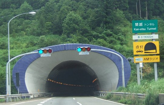 Kan'etsu tonnel in Yuzawa